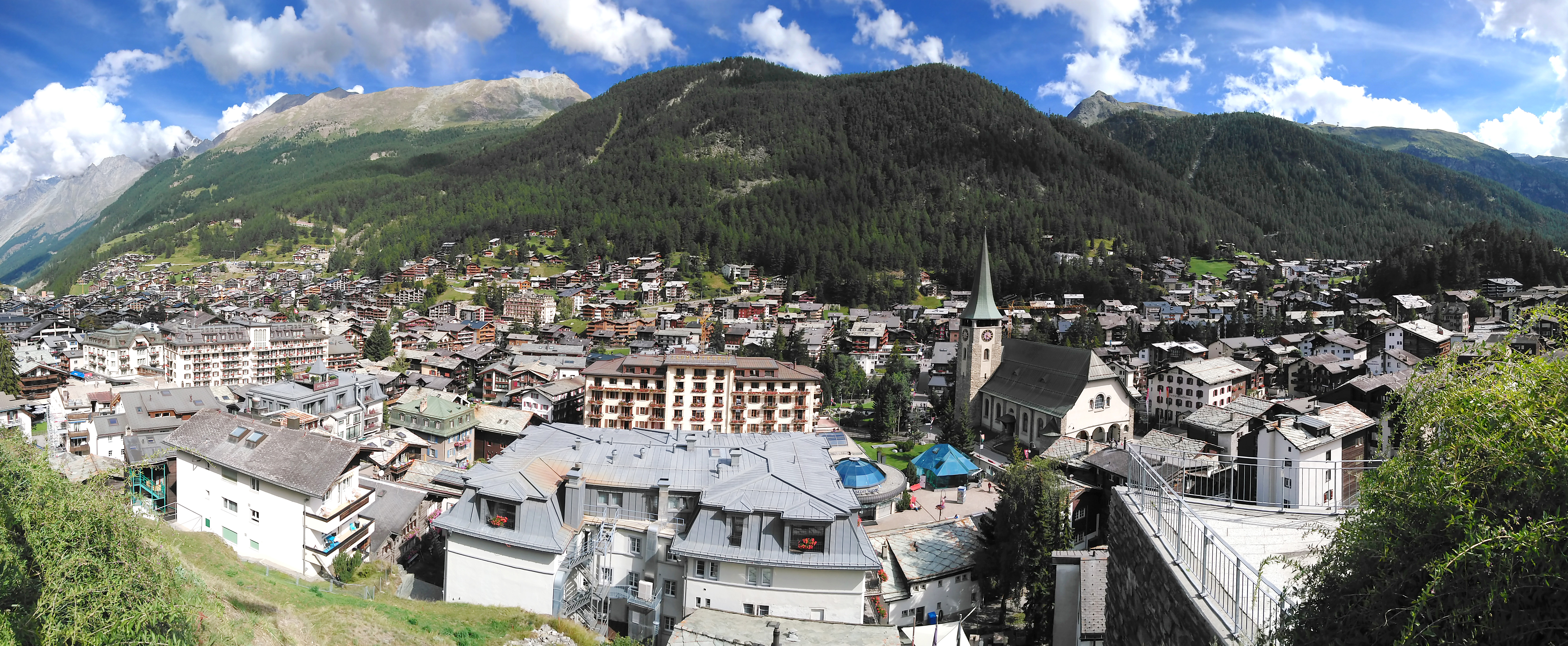 Zermatt, Switzerland.